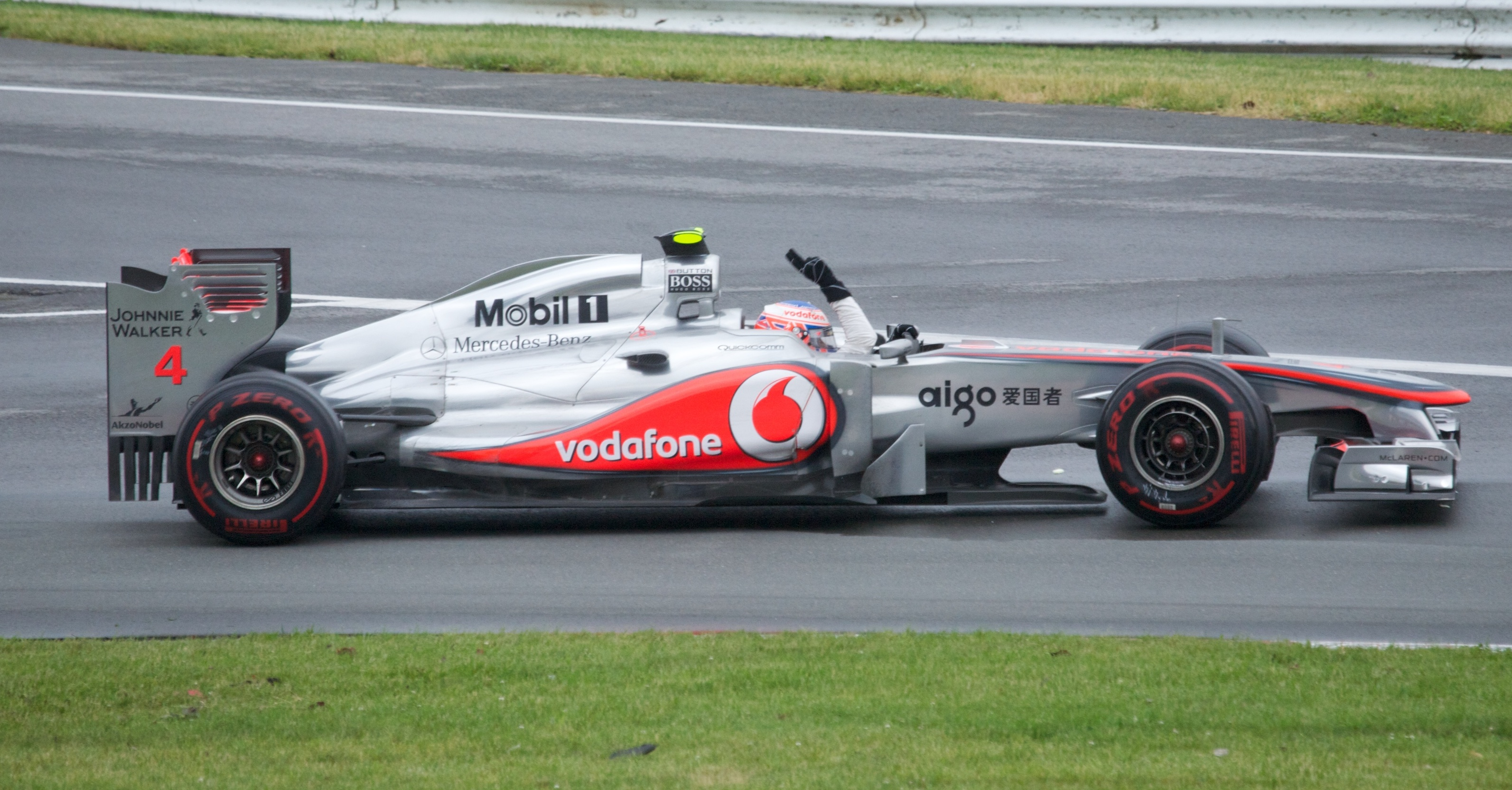 2011 Canadian Grand Prix